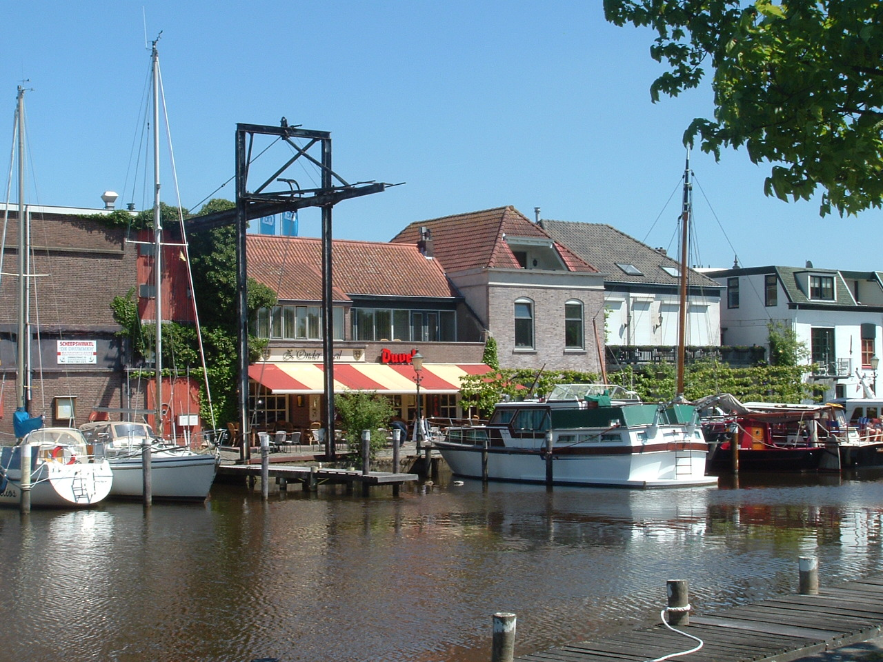 The city harbour of the Dutch town of Steenbergen; as viewed from the side.